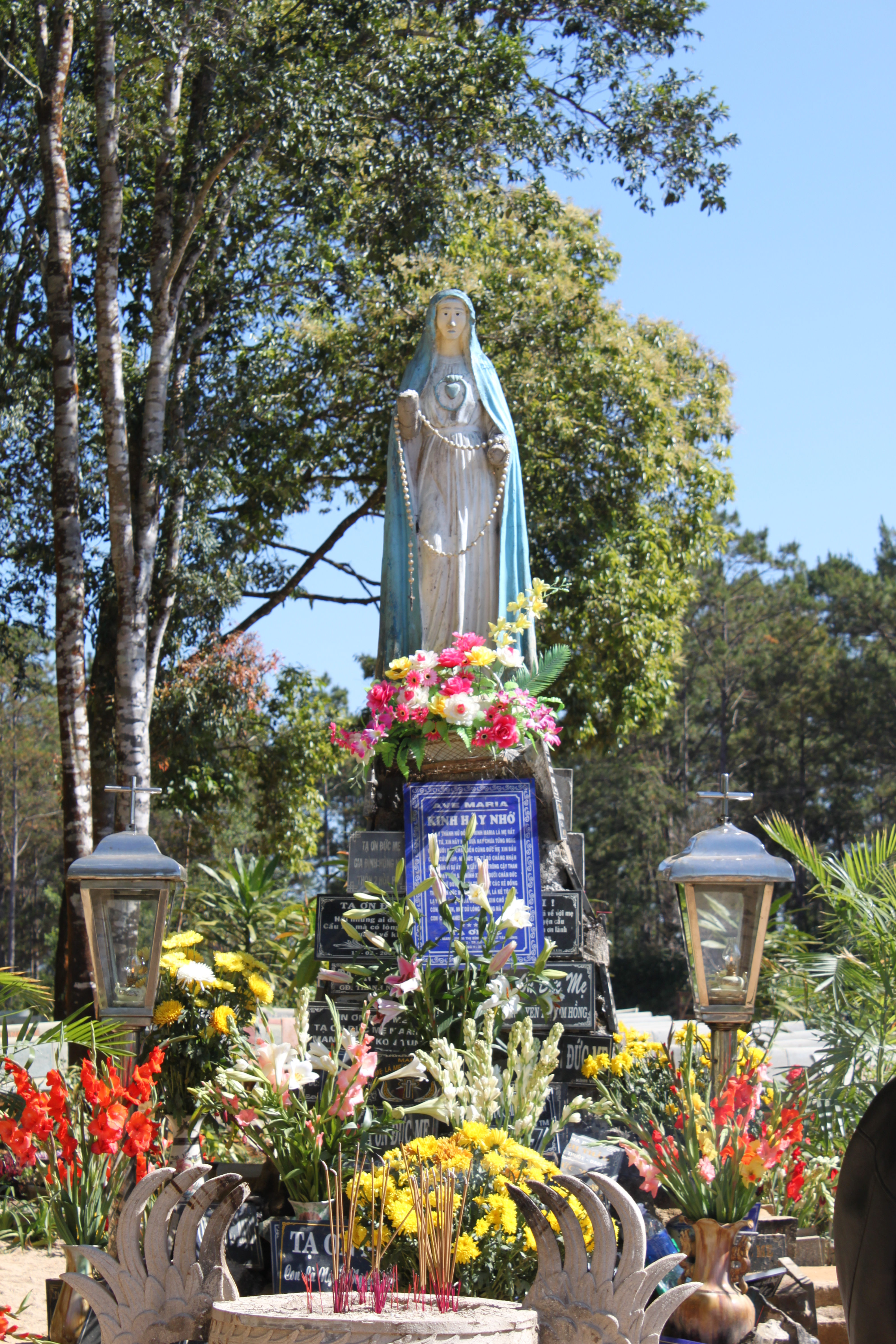 duc me mang den